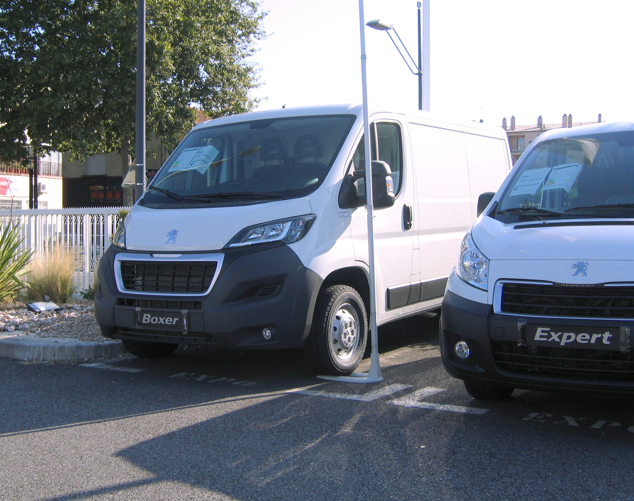 A 2014 Peugeot Boxer.